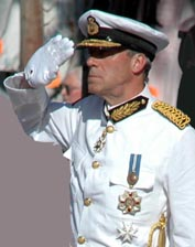 Sir Francis Richards Governor of Gibraltar at the ceremony of the Keys. Richards is wearing his governor's uniform (tropical dress variant).